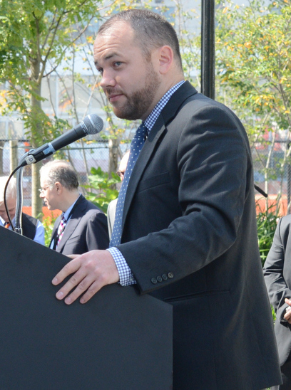 MTA Chairman and CEO Thomas Prendergast joins elected officials to dedicate the new 34 St-Hudson Yards station on Sun., September 13, 2015, which extends the 7 line to the West Side. City Councilman Corey Johnson. Photo: Marc A. Hermann / MTA New York City Transit